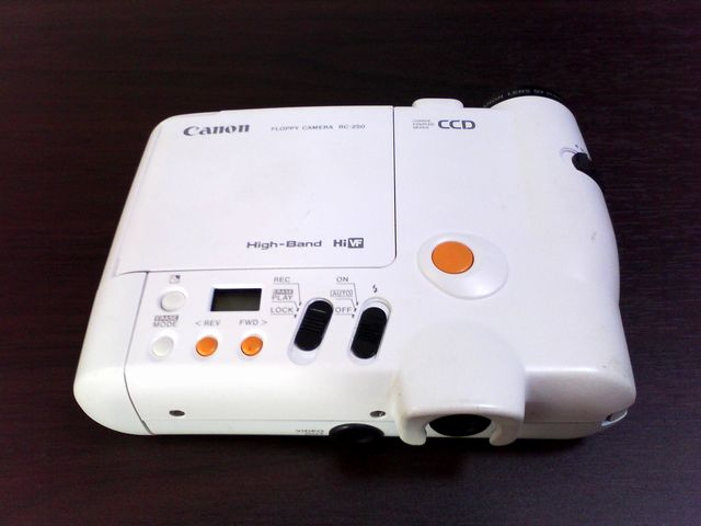 Canon SV FLOPPY CAMERA RC-250 [Q-PIC]